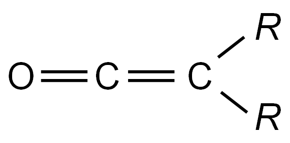 Structural formula of ketene